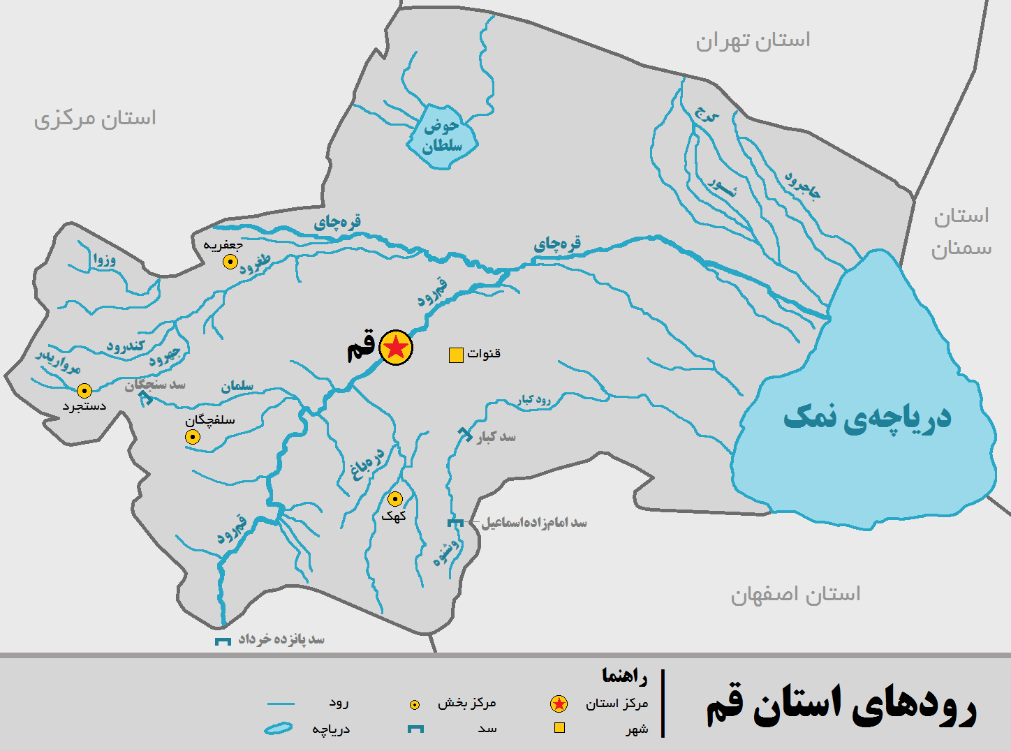 Qom Province Rivers Map